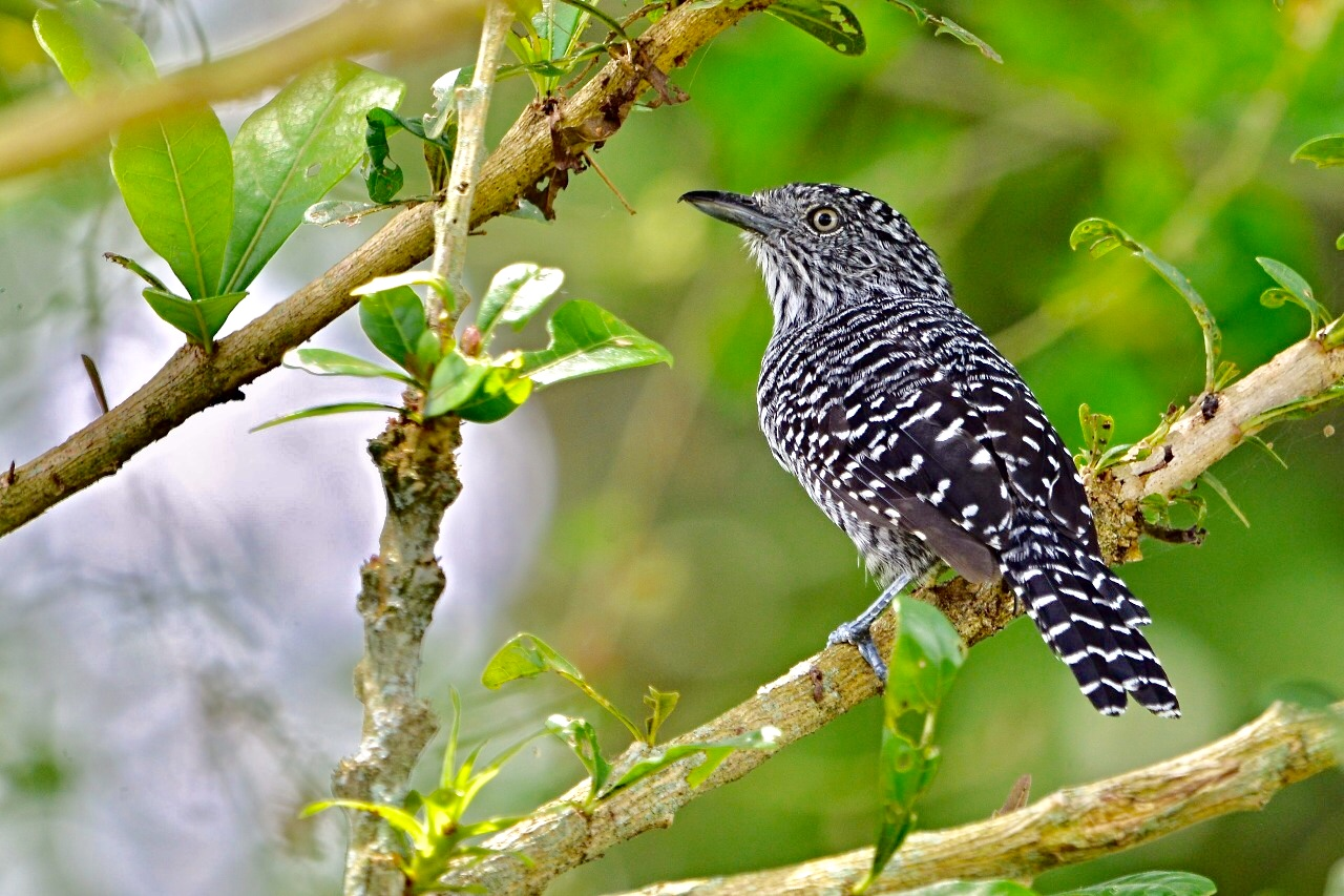 Thamnophilus multistriatus (Batará carcajada - Bar-crested Antshrike)